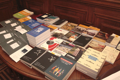 EUSP